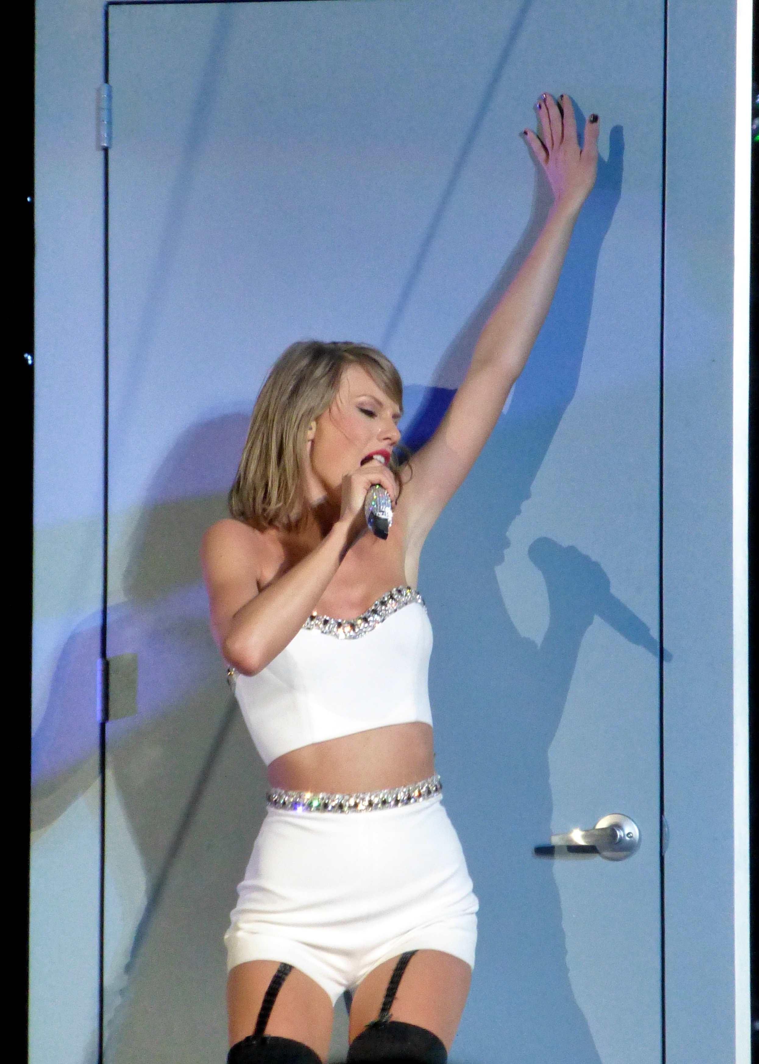 Taylor Swift 1989 Tour at Ford Field in Detroit, 5/30/15